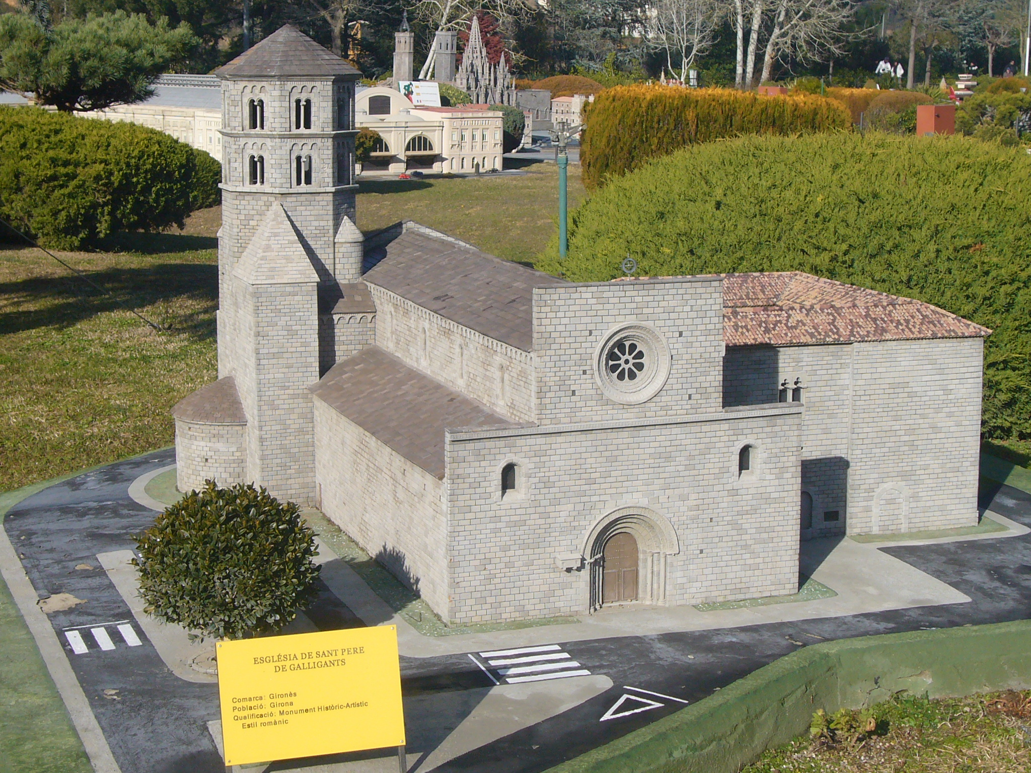 Scale model at the "Catalunya en Miniatura" miniature park : Monastery of Sant Pere de Galligants